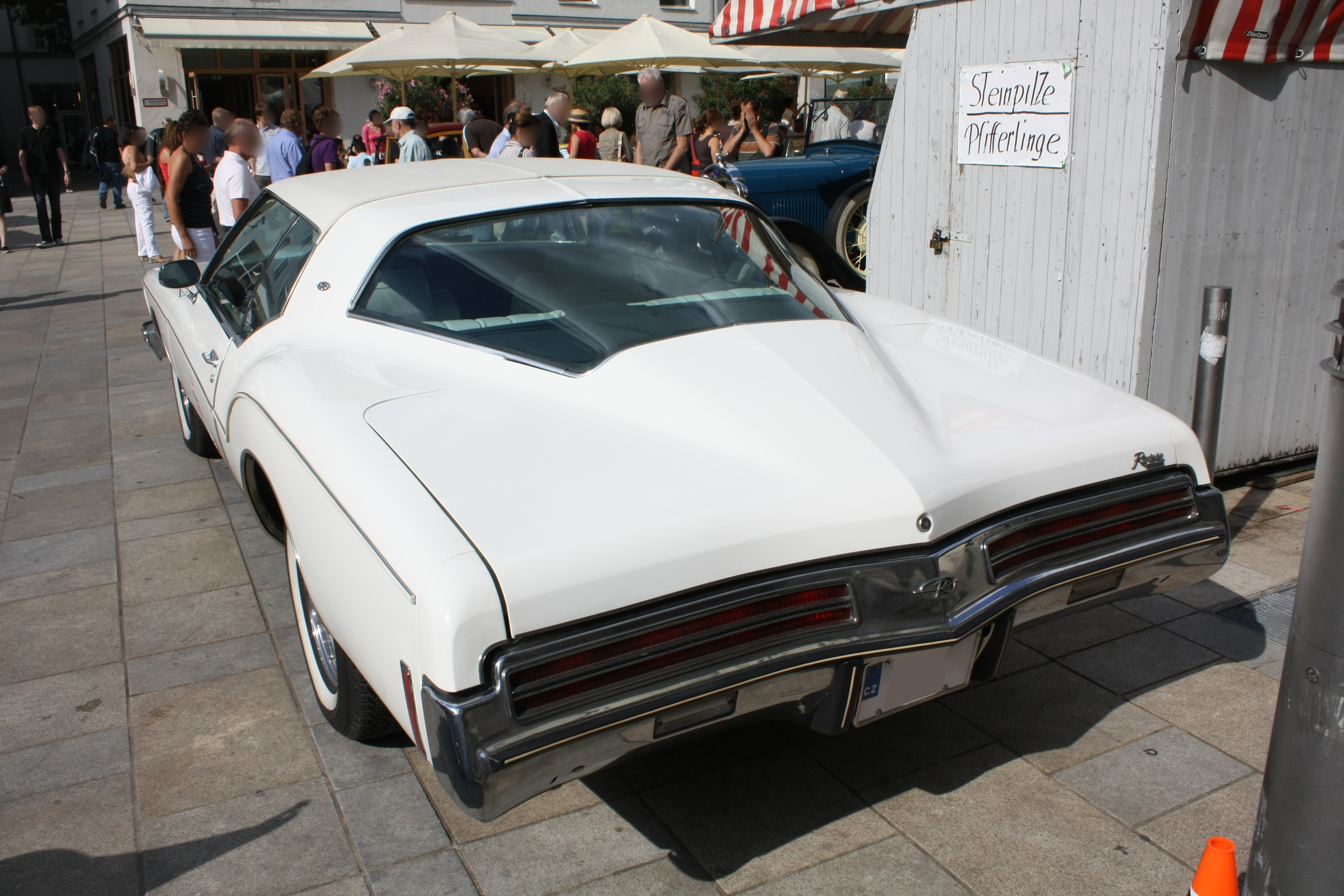 Buick Riviera GS Stage 1